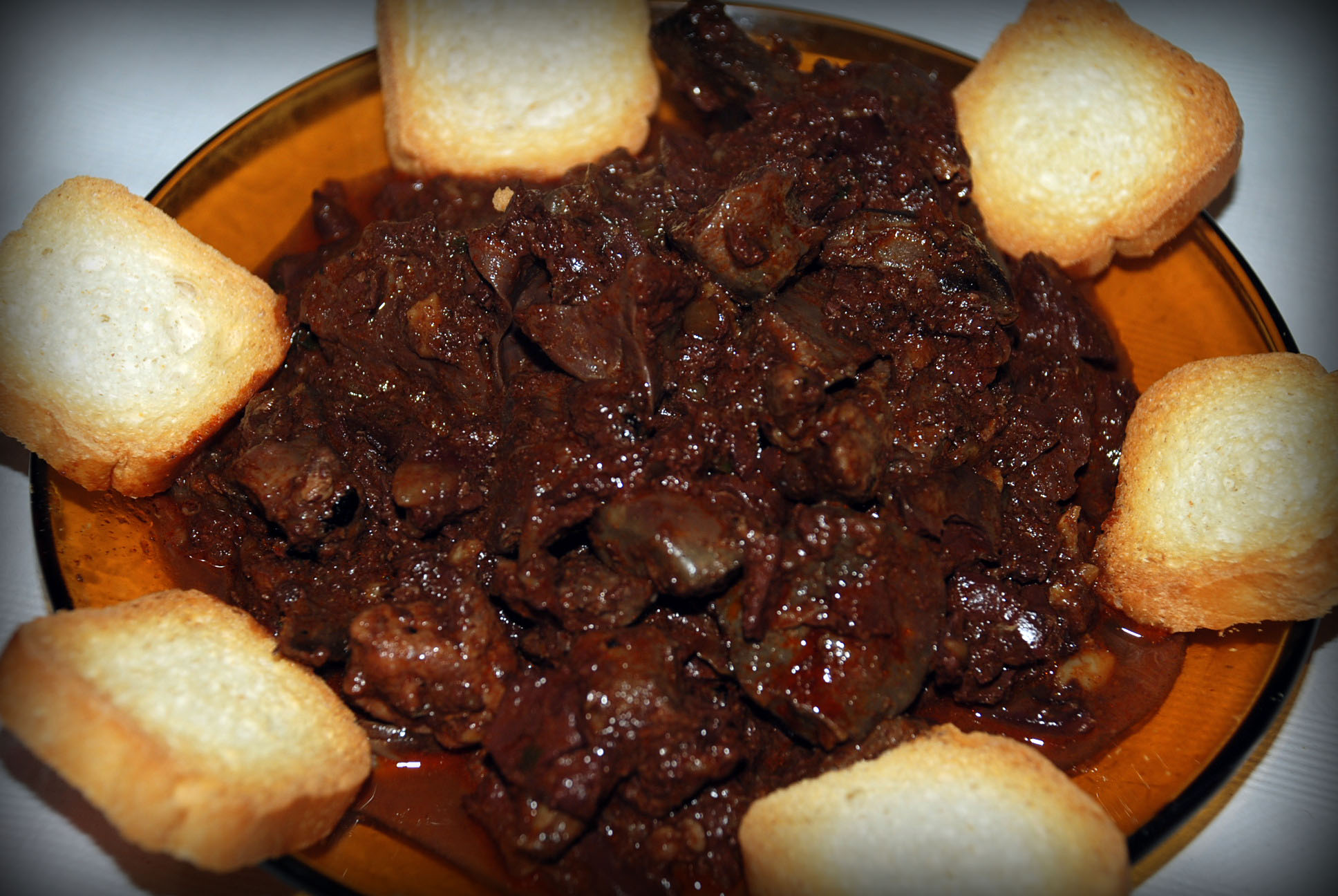 Asadurilla or chanfaina. Palentine cuisine dish based on internal lamb liver, lungs, heart, blood, etc.